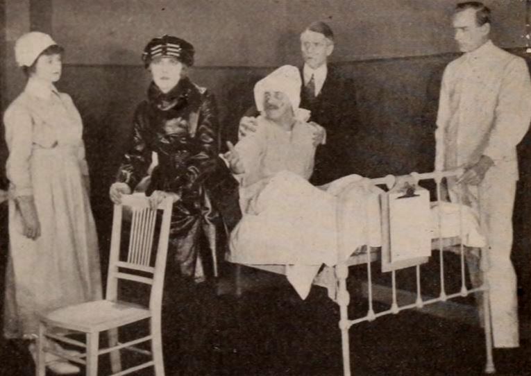 Still from the American film serial The Black Secret (1919) with Pearl White and Walter McGrail, from episode 1, on page 79 of the September 6, 1919 Exhibitors Herald.